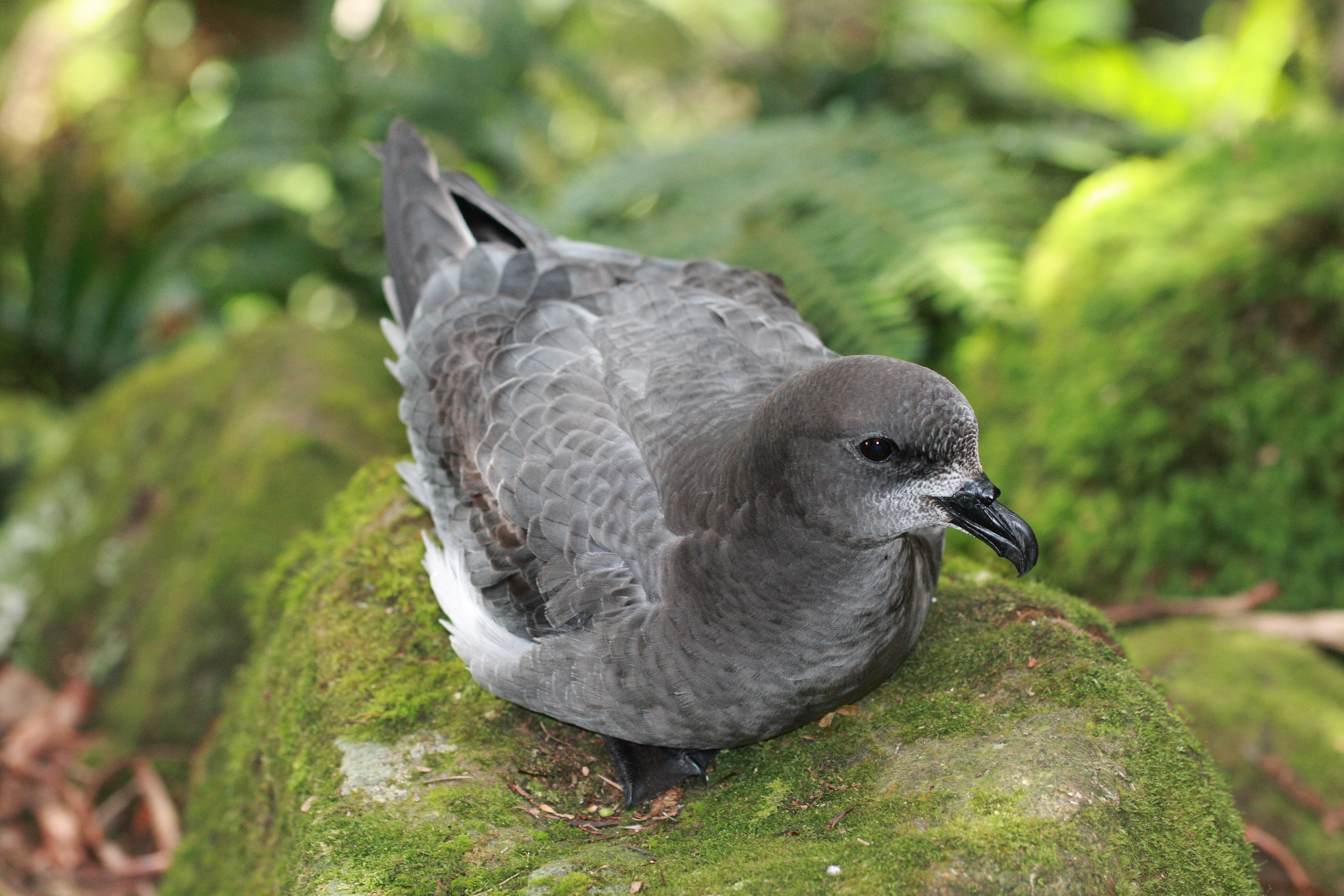 On the walk up Mount Gower on Lord Howe Island.